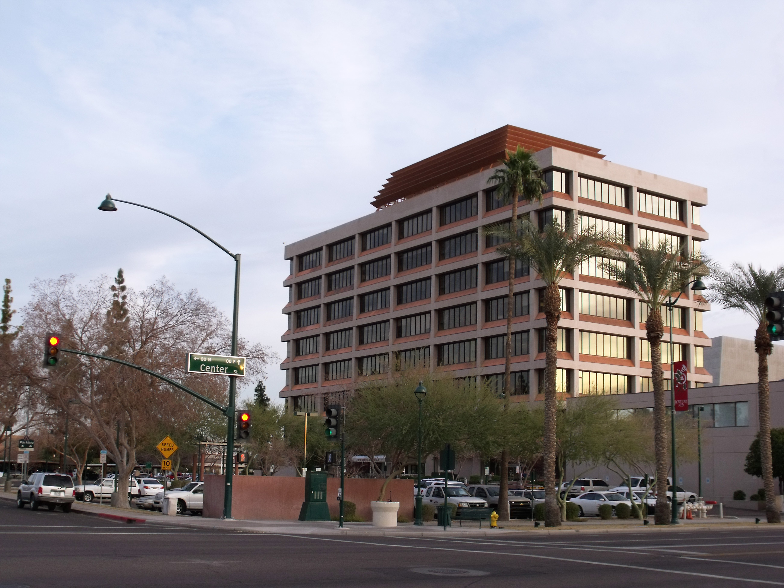 Photograph of downtown Mesa, Arizona, showing Mesa City Plaza (the city hall and municipal offices). This photo was taken at the northwest corner of Center Street and Pepper Place.